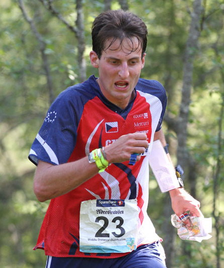 Adam Chromý -- orienteer from the Czech Republic at World Orienteering Championships 2010 (Middle Distance Qualification)